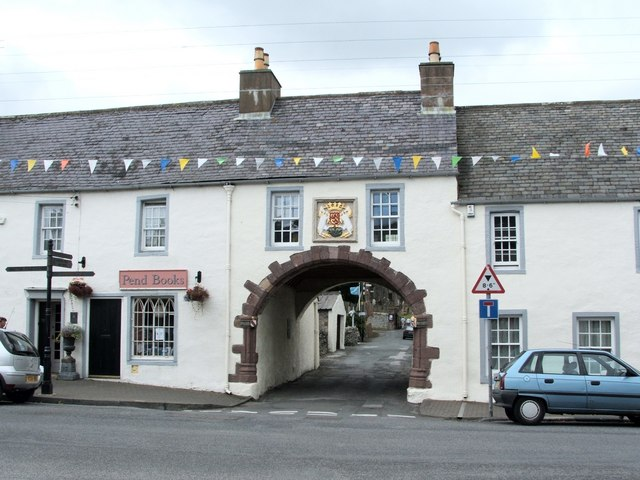 The Pend The medieval gatehouse leading to St Ninian's Priory.